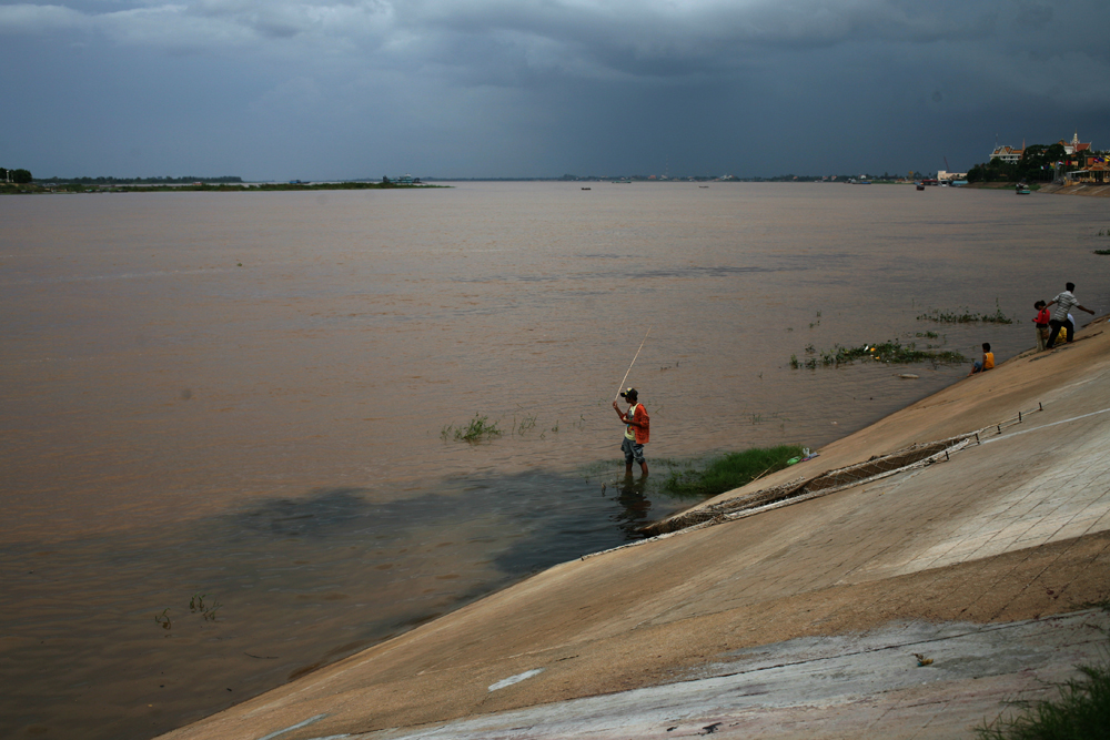 Fishermen along the banks of river Mekong, in Phnom Penh, Cambodia while a monson approaching